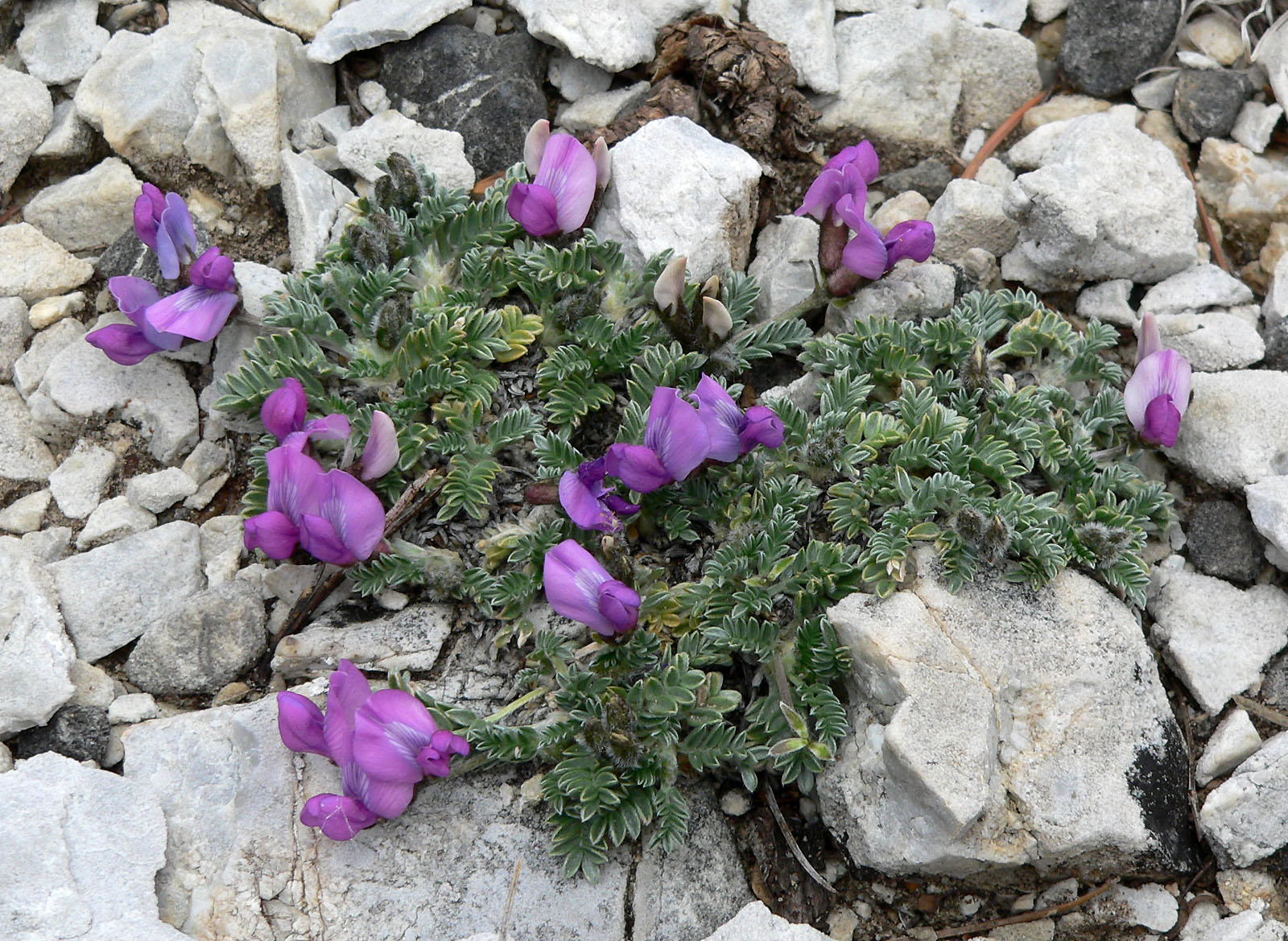 Oxytropis oreophila var. oreophila on the North Loop trail east of Mummy Mountain, Spring Mountains, southern Nevada (elev. about 3000 m)